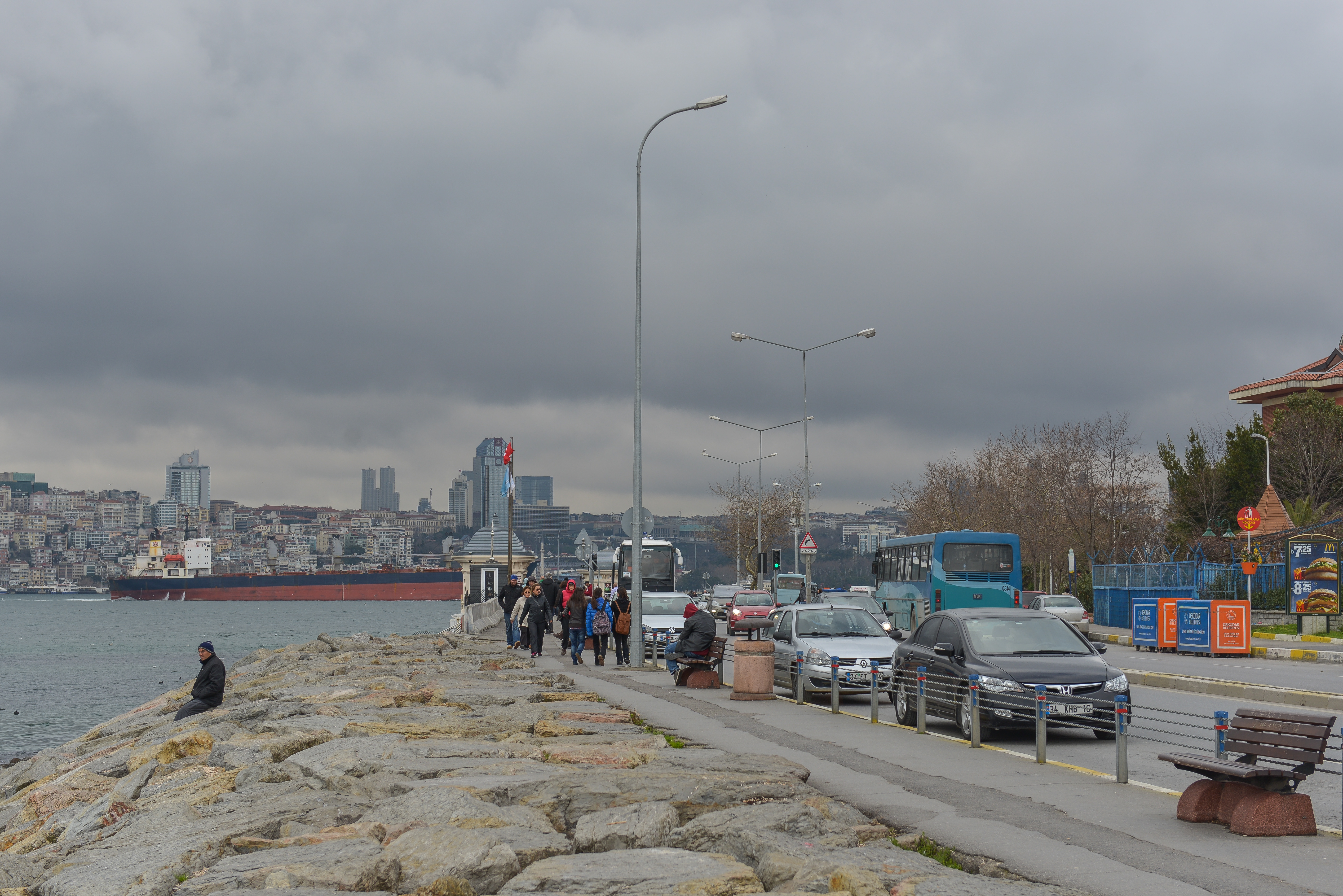 Seafront in Üsküdar district, Istanbul.